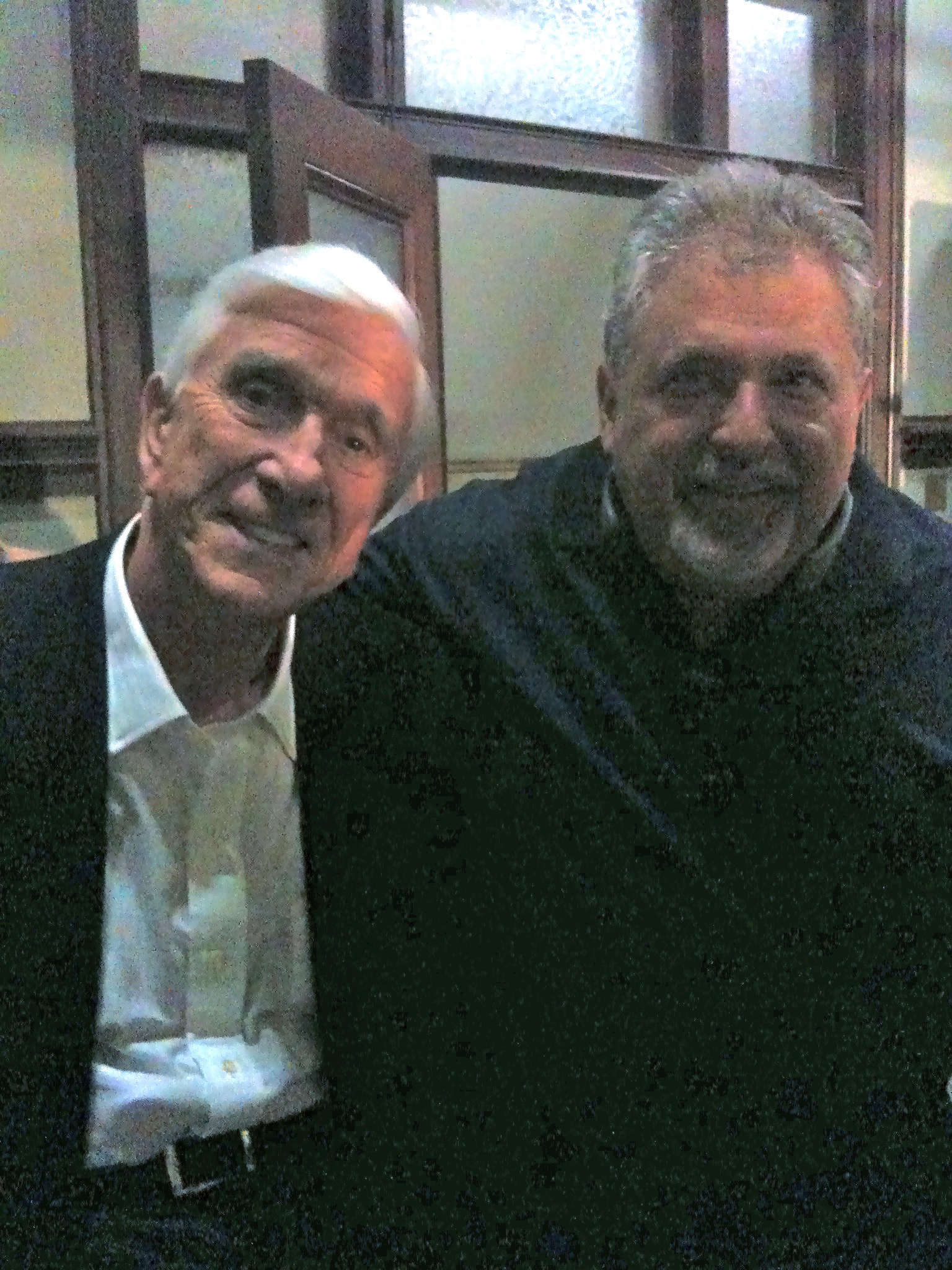 Tom and Leslie Nielsen on the set of Stonerville in 2011.